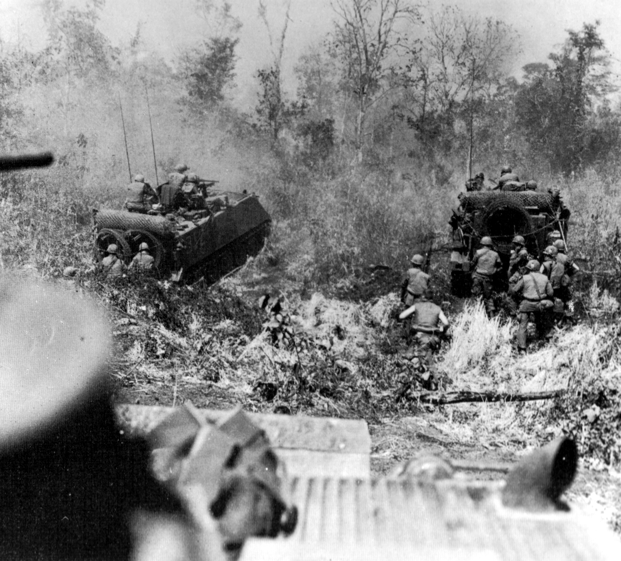 ARMORED PERSONNEL CARRIERS CLEAR THE WAY AS INFANTRY FOLLOWS Using vehicles for cover.